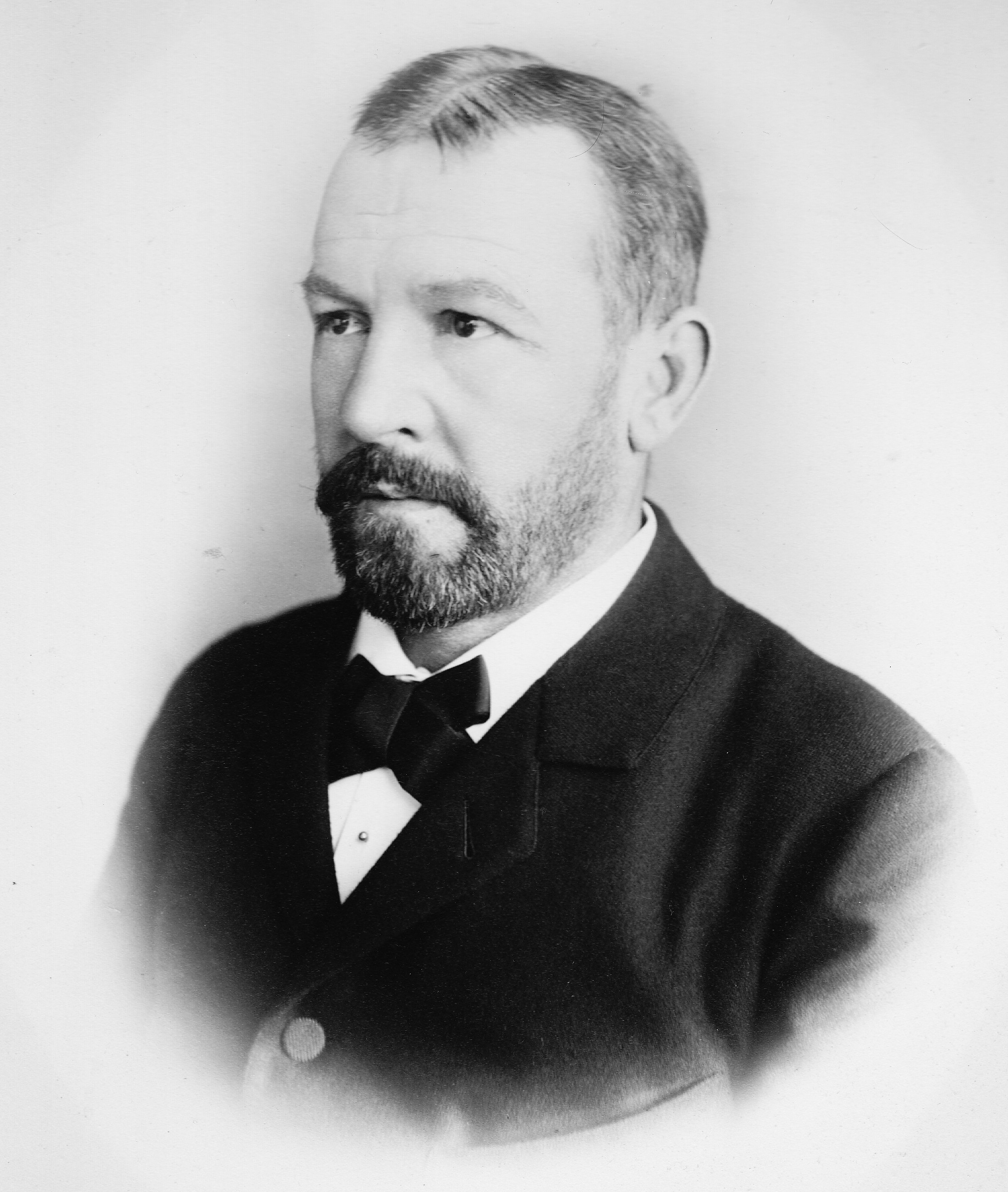 Foto of Paul Speiser-Sarasin (1846–1935) from Basel (Swiss)